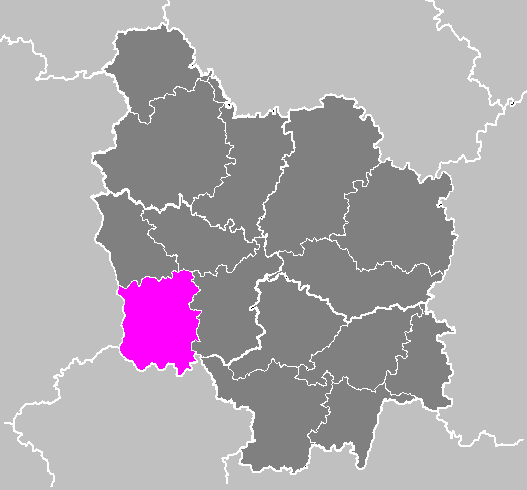 Map of arrondissements and cantons of France: Arrondissement de Nevers.PNG (Région Bourgogne).